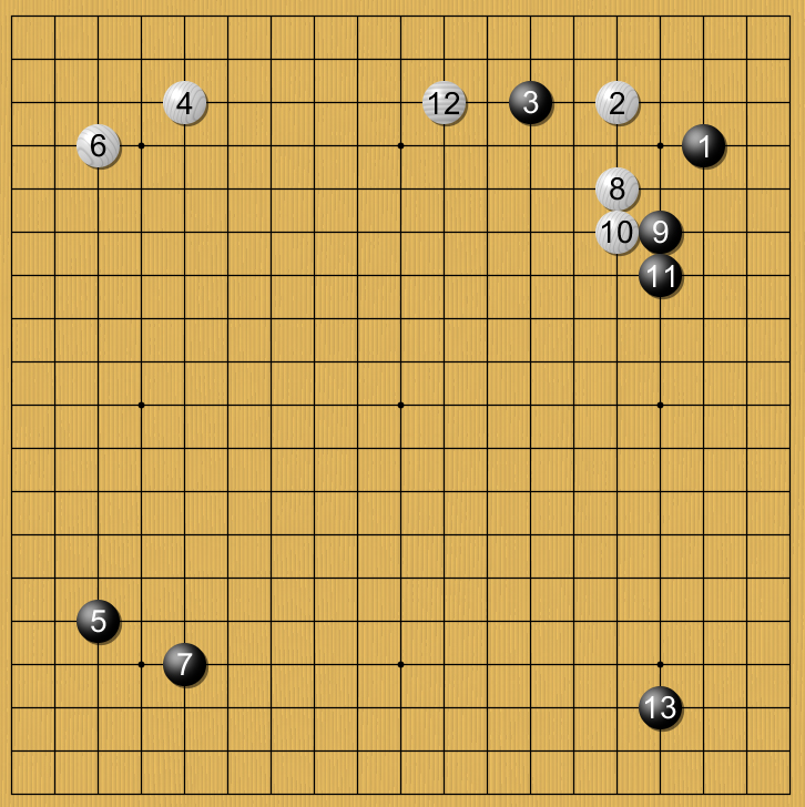 Honinbo Dosaku (w) vs Yasui Chitetsu (17.01.1678)